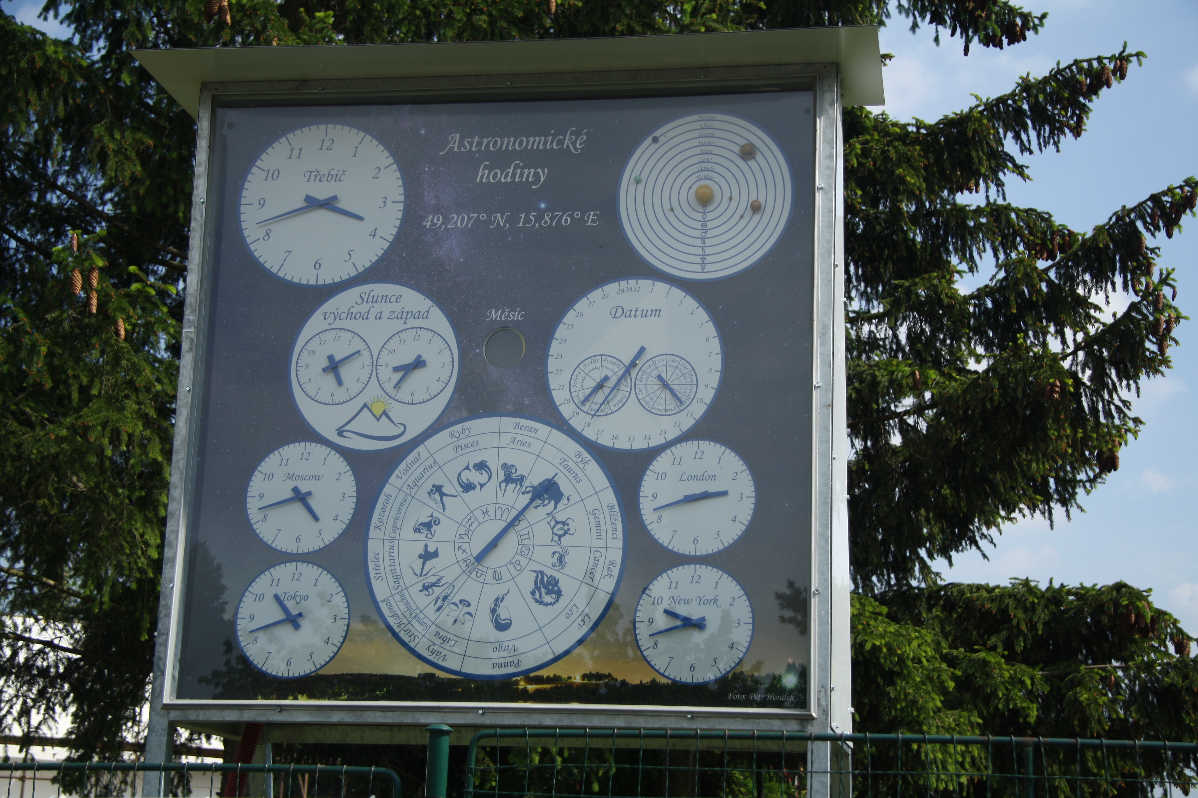 Astronomical clock near observatory in Třebíč, Třebíč District.